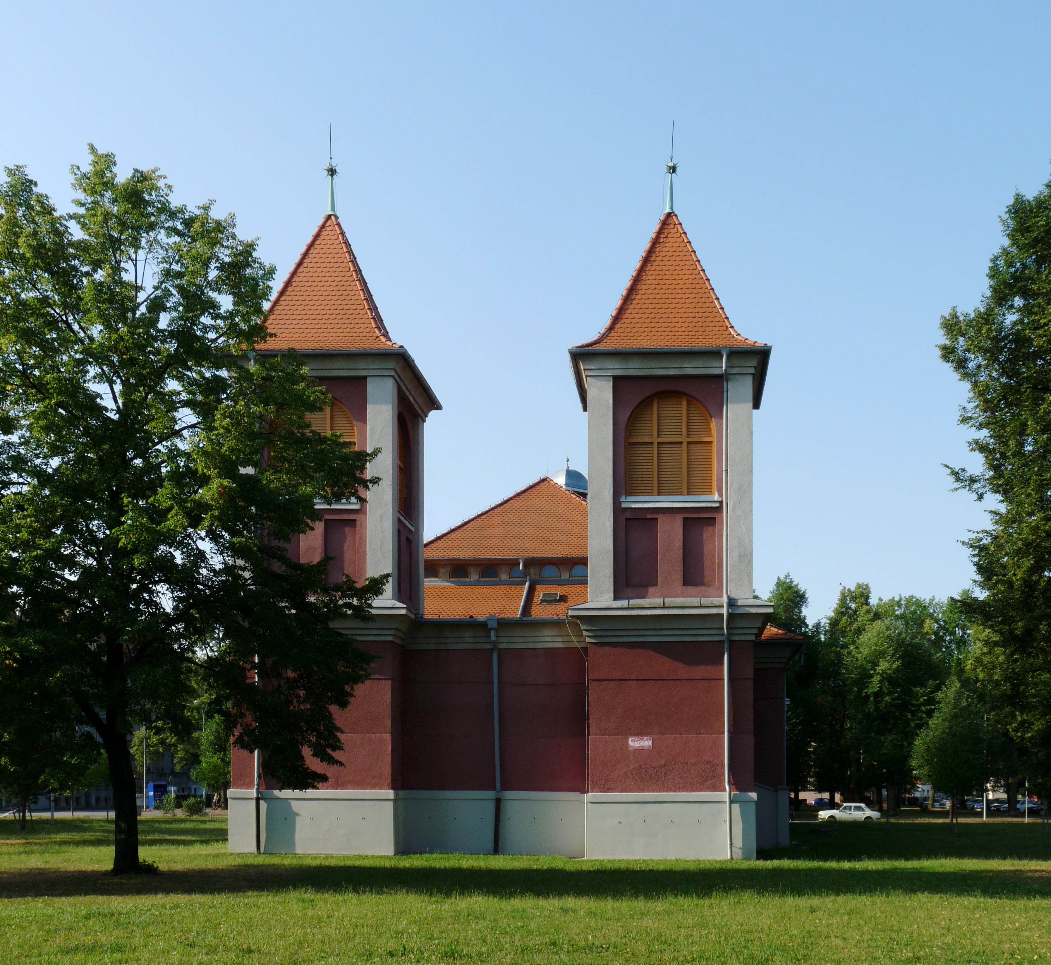 Church of the Czechoslovak Hussite Church in the town of České Budějovice, South Bohemian Region, Czech Republic.